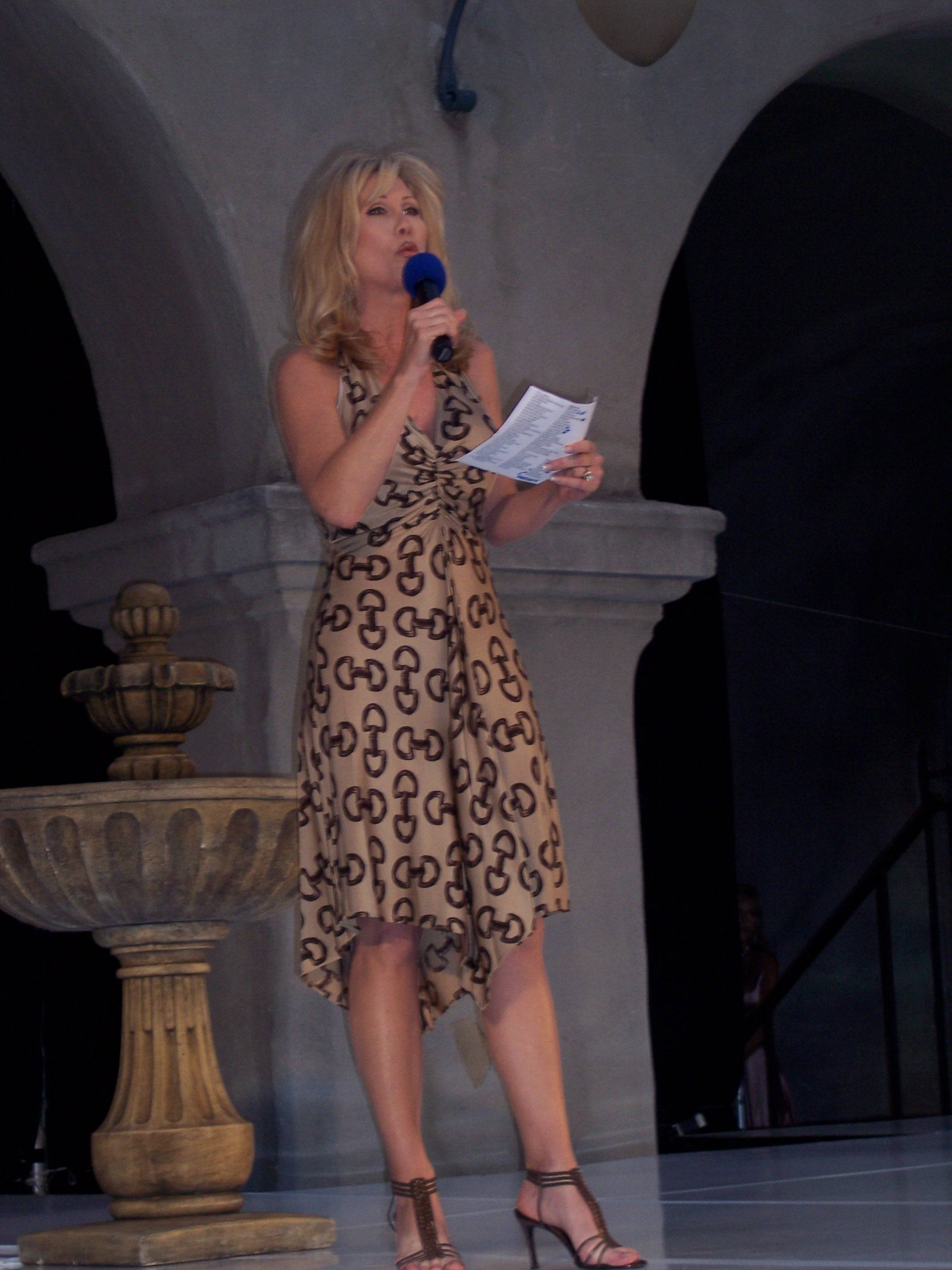 Description = Kimberly Hunt serves as emcee for Runway in the Park, benefiting Ordinary Miracles, Picture = Authorized by the author = kusinews